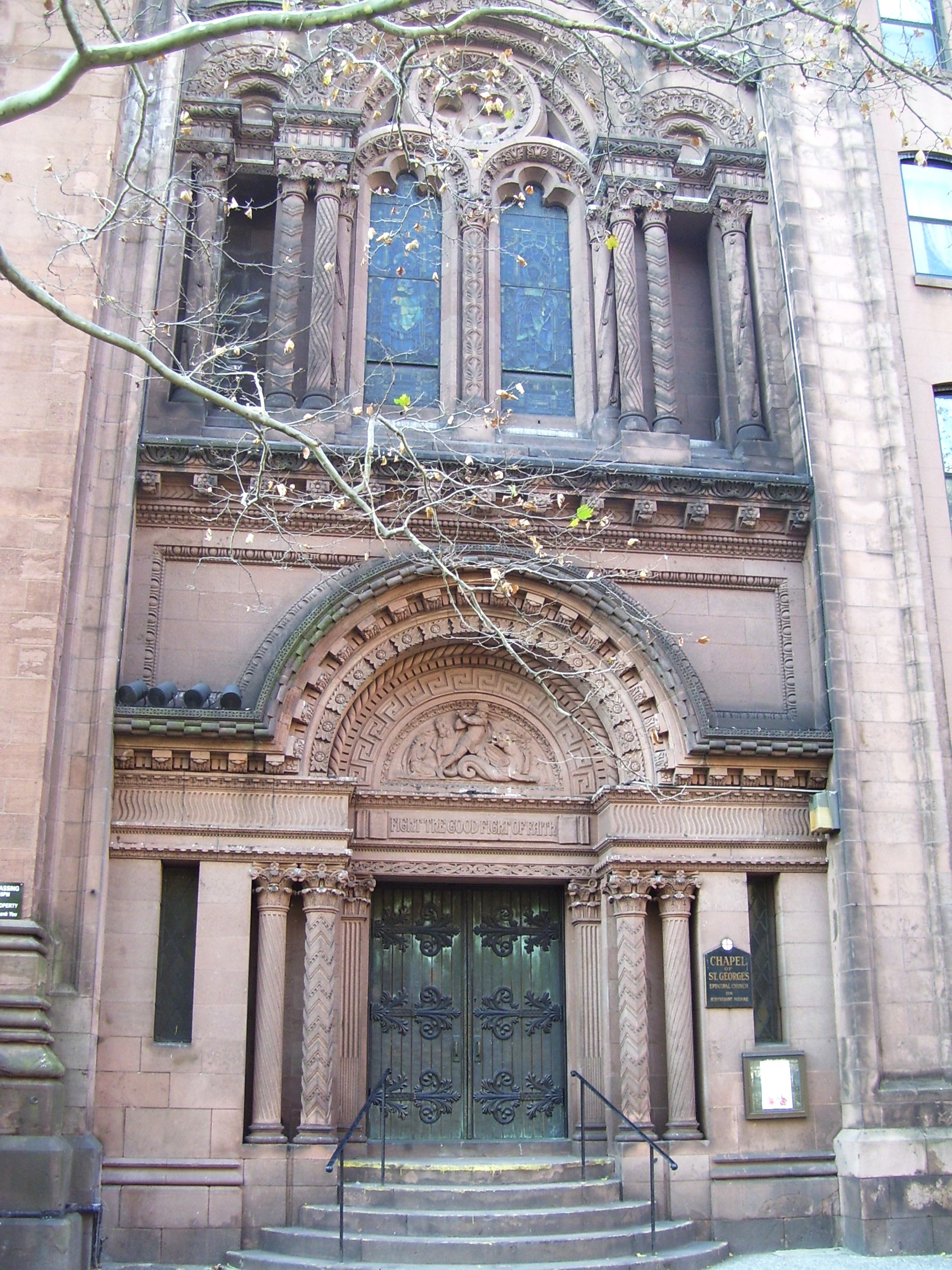 The Chapel of St. George's Episcopal Church on Steyvesant Square in Manhattan, New York City, is located at 4 Rutherford Place, next to the church proper. It was built in 1911-1912 and designed by Matthew Lansing Emery and Henry George Emery. It sits within the Stuyvesant Square Historic District.